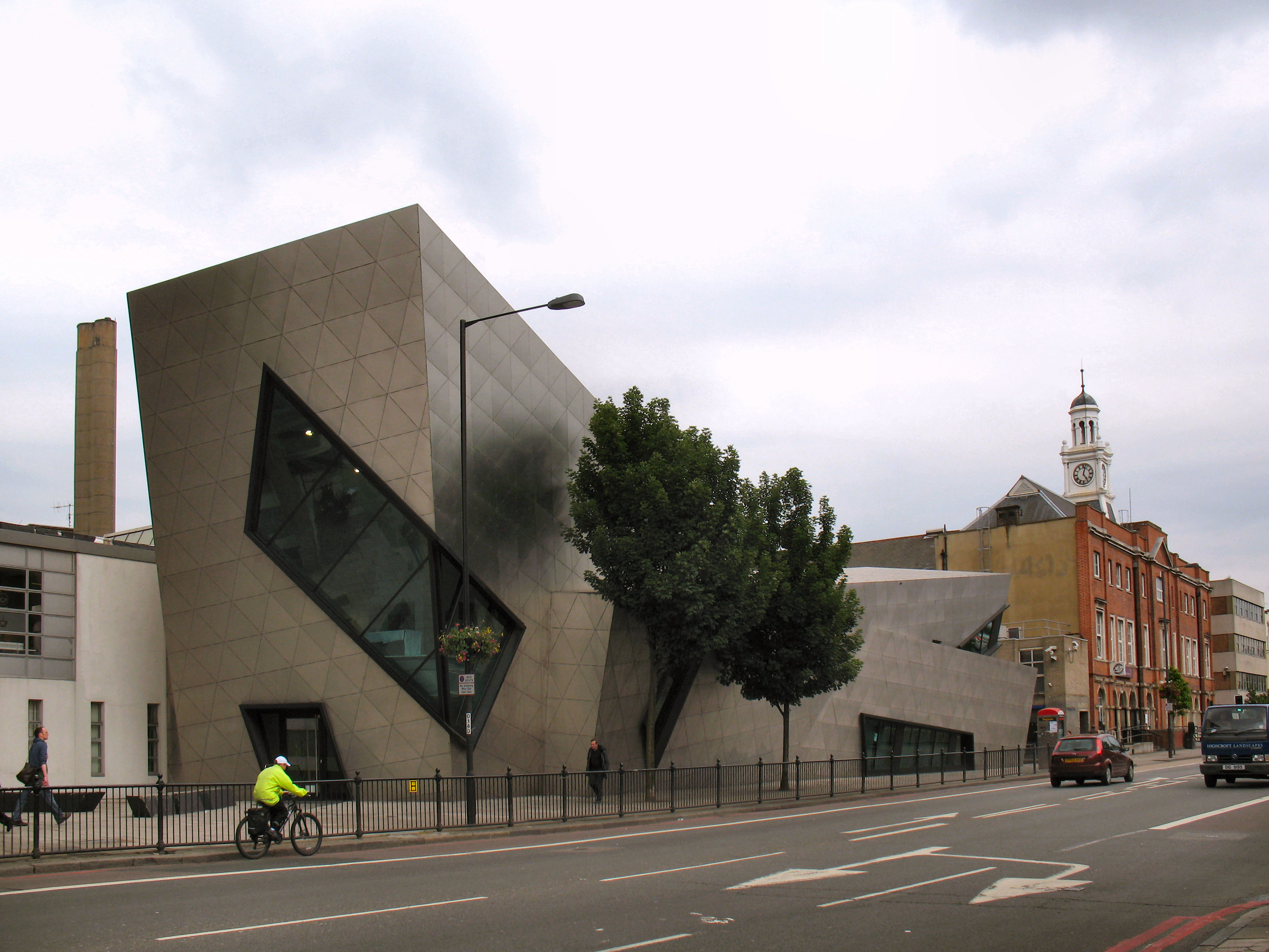 Orion Building, the Post Graduate Centre of London Metropolitan University, England.